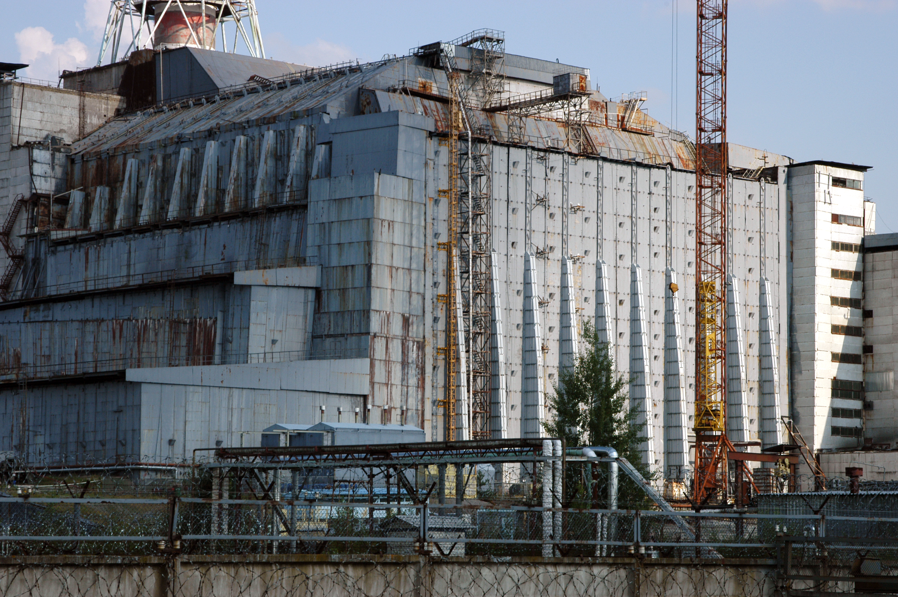 The ill-fated 4th block of the Chernobyl Nuclear Power Plant in the Ukraine stands eerily quiet. (Chernobyl, Ukraine, August 2005) Photo Credit: Petr Pavlicek/IAEA